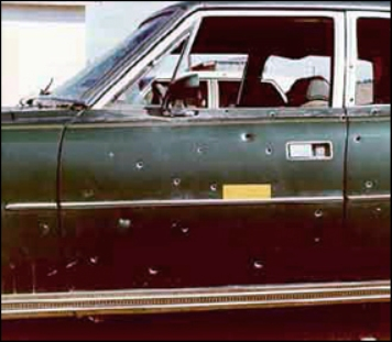 Agent Ronald Williams AMC Ambassador riddled by the bullets of an AR-15 rifle at Wounded Knee